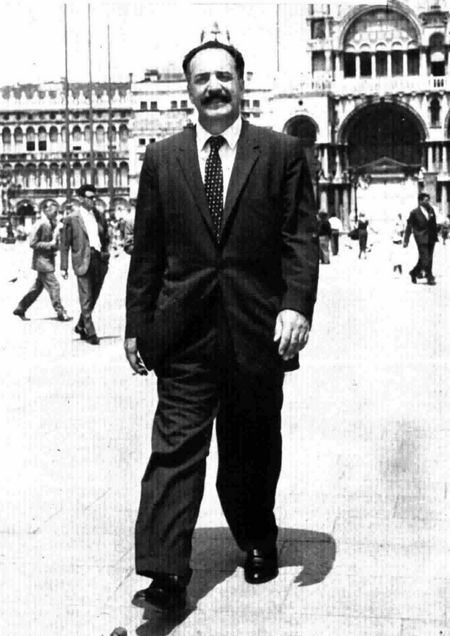 American dramatist and author William Saroyan during an Italian trip in Venice in 1957